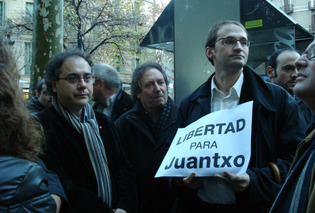 Photo of Jordi Miralles and Joan Herrera